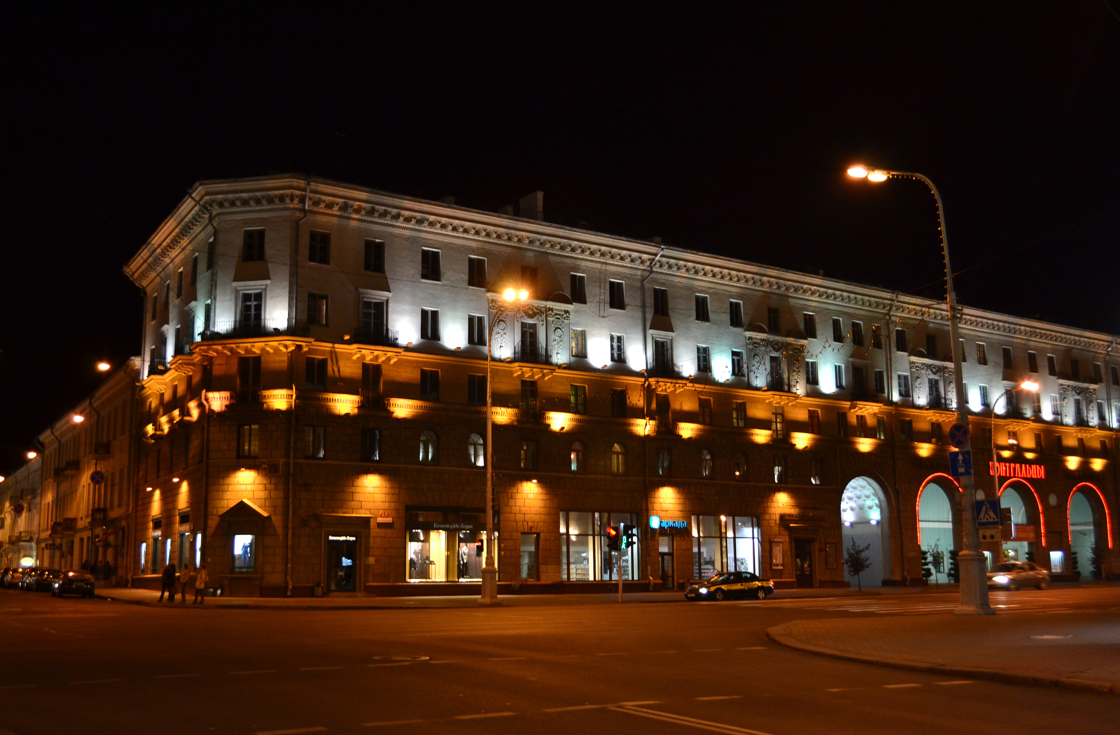 Беларуская (тарашкевіца): м. Менск, пр. Ф.Скарыны, 13 This is a photo of Belarusian heritage monument. Reference number: 713Г000162 ( WLM)